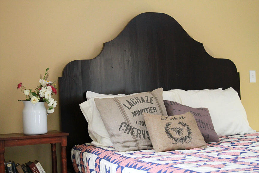 This is an image of a bedframe that was made on CustomMade